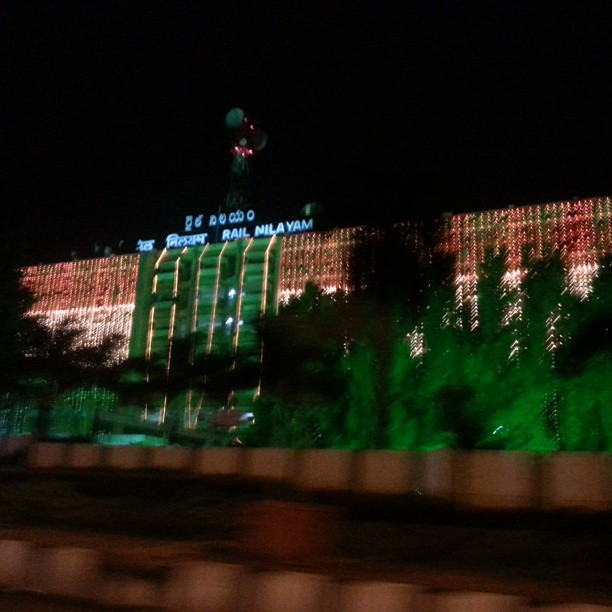 View of Rail Nilayam, the zonal HQ of the South Centrail Railways taken during the 67th Indian Independence Day.